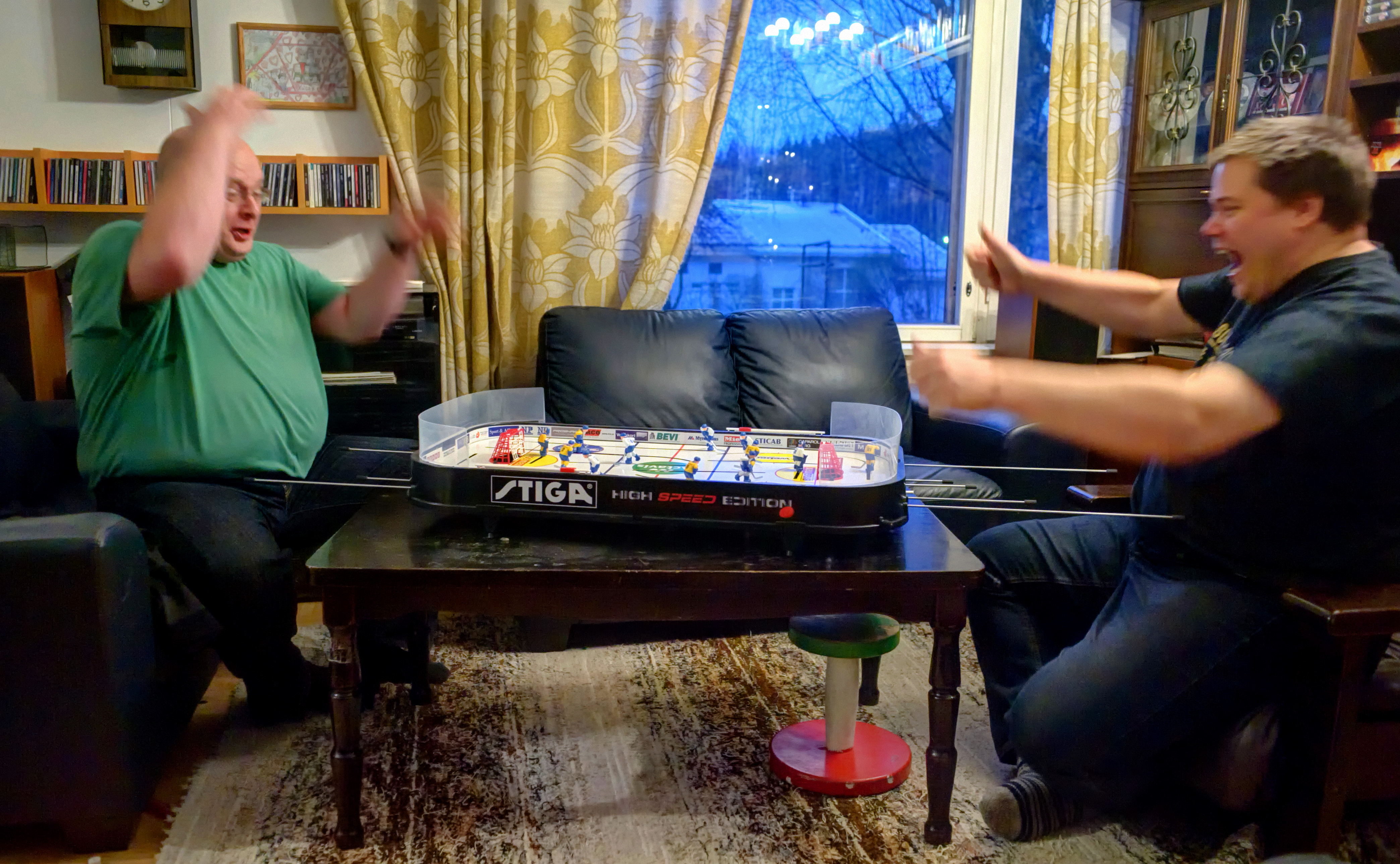 Table Ice Hockey Players